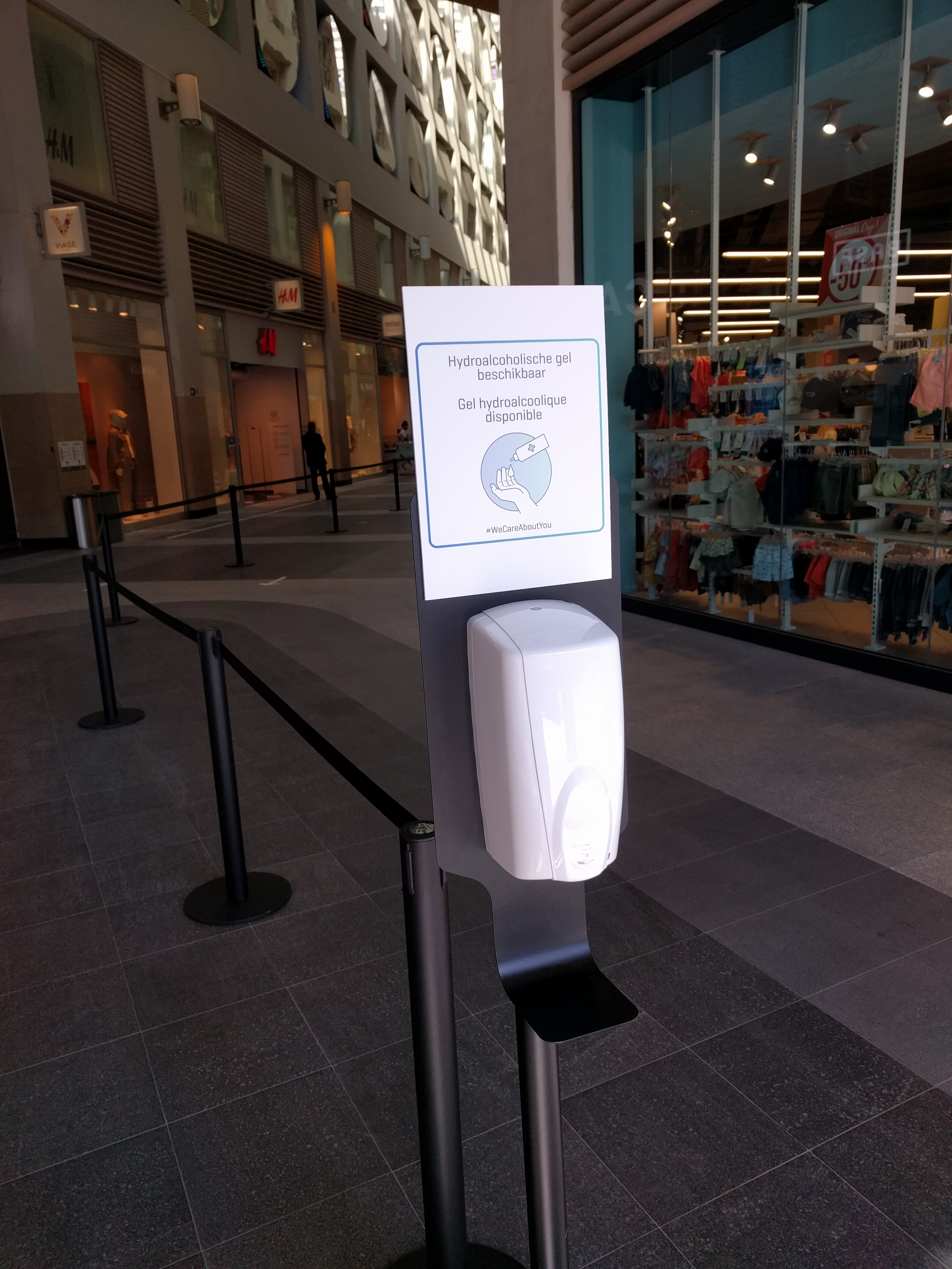 Hand sanitizer to wash its hands, during the COVID-19 pandemic, Anspach gallery in Brussels.